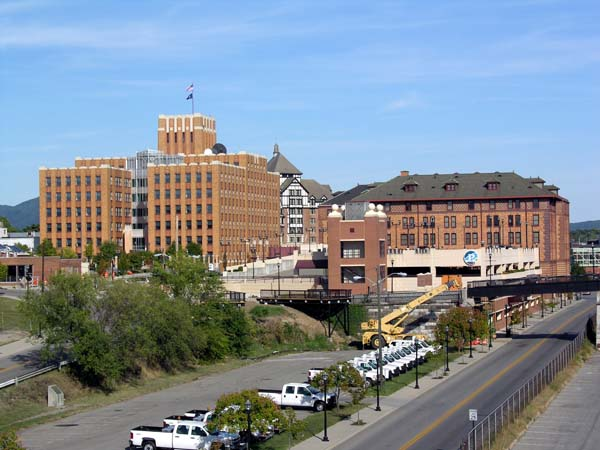 Norfolk and Western Railway Company Historic District listed on the National Register of Historic Places in Roanoke, Virginia, USA